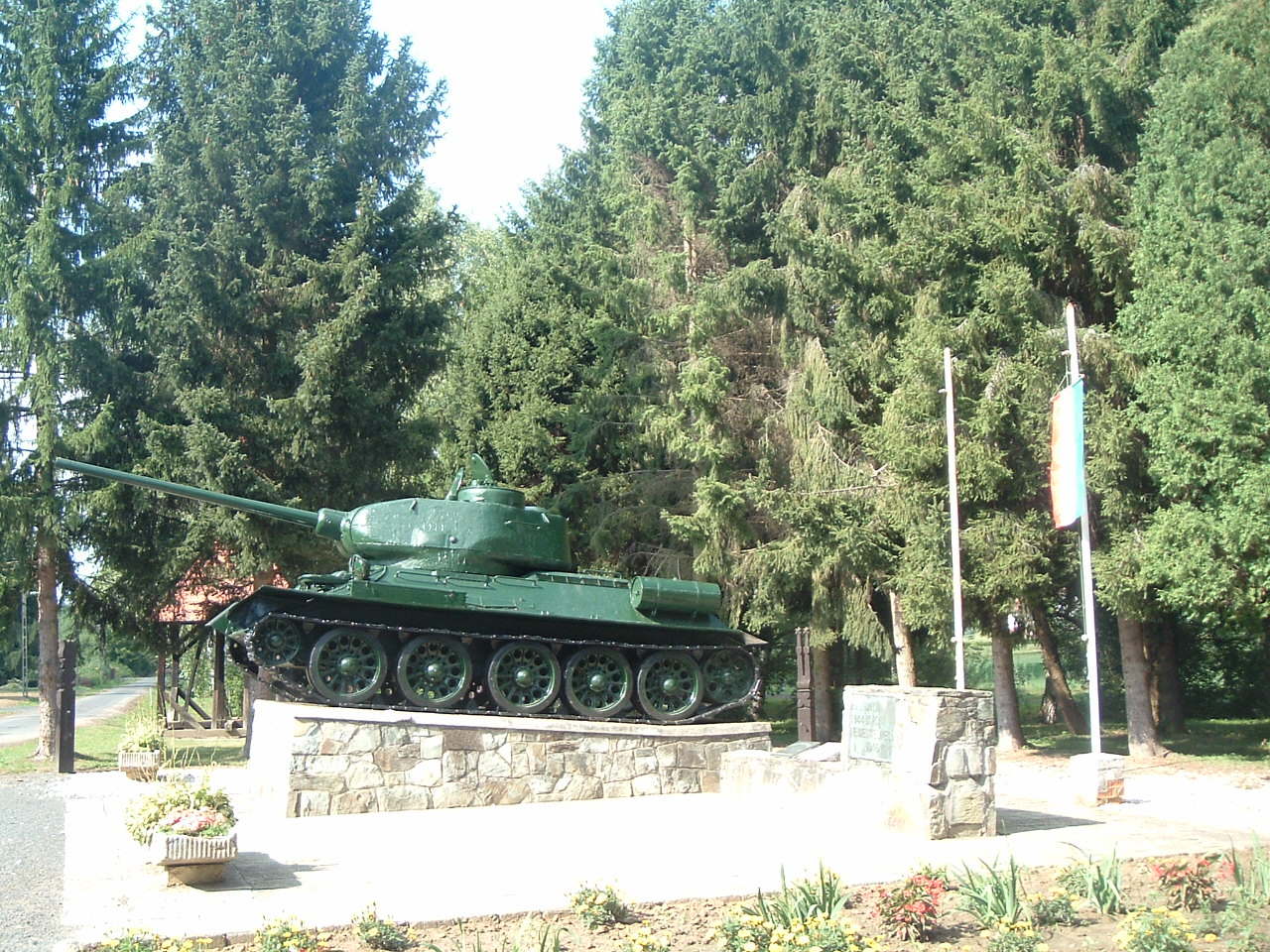 The Monument of the 2nd World War in Nemesmedves